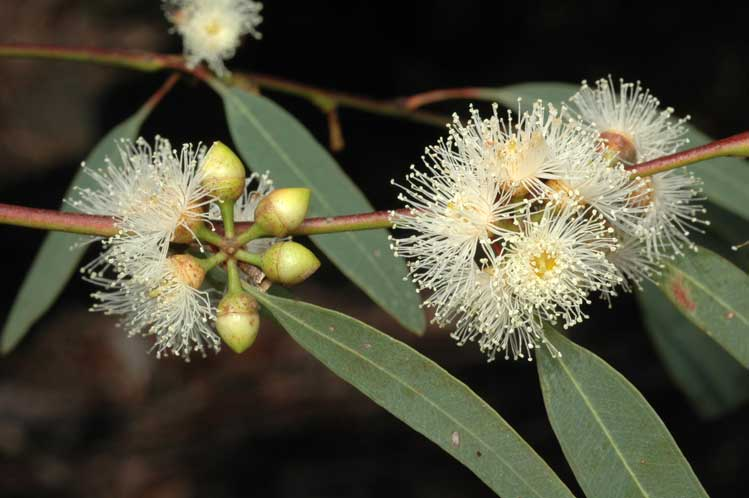 Flower buds of Eucalyptus parramattensis in the Australian National Botanic Gardens